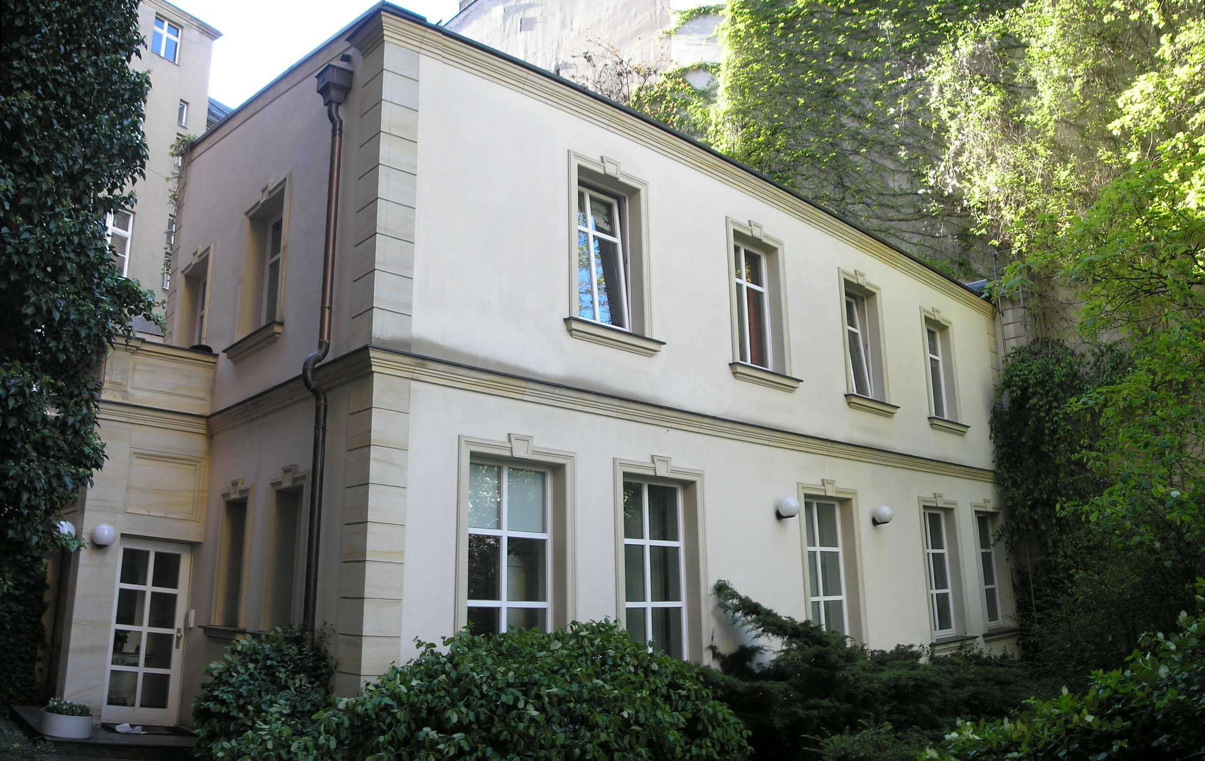 Panorama view of the former synagogue in Steglitz, Berlin. The building is located in the backyard of Düppelstrasse 41. The renovation of the building goes back to the initiative "Haus Wolfenstein".